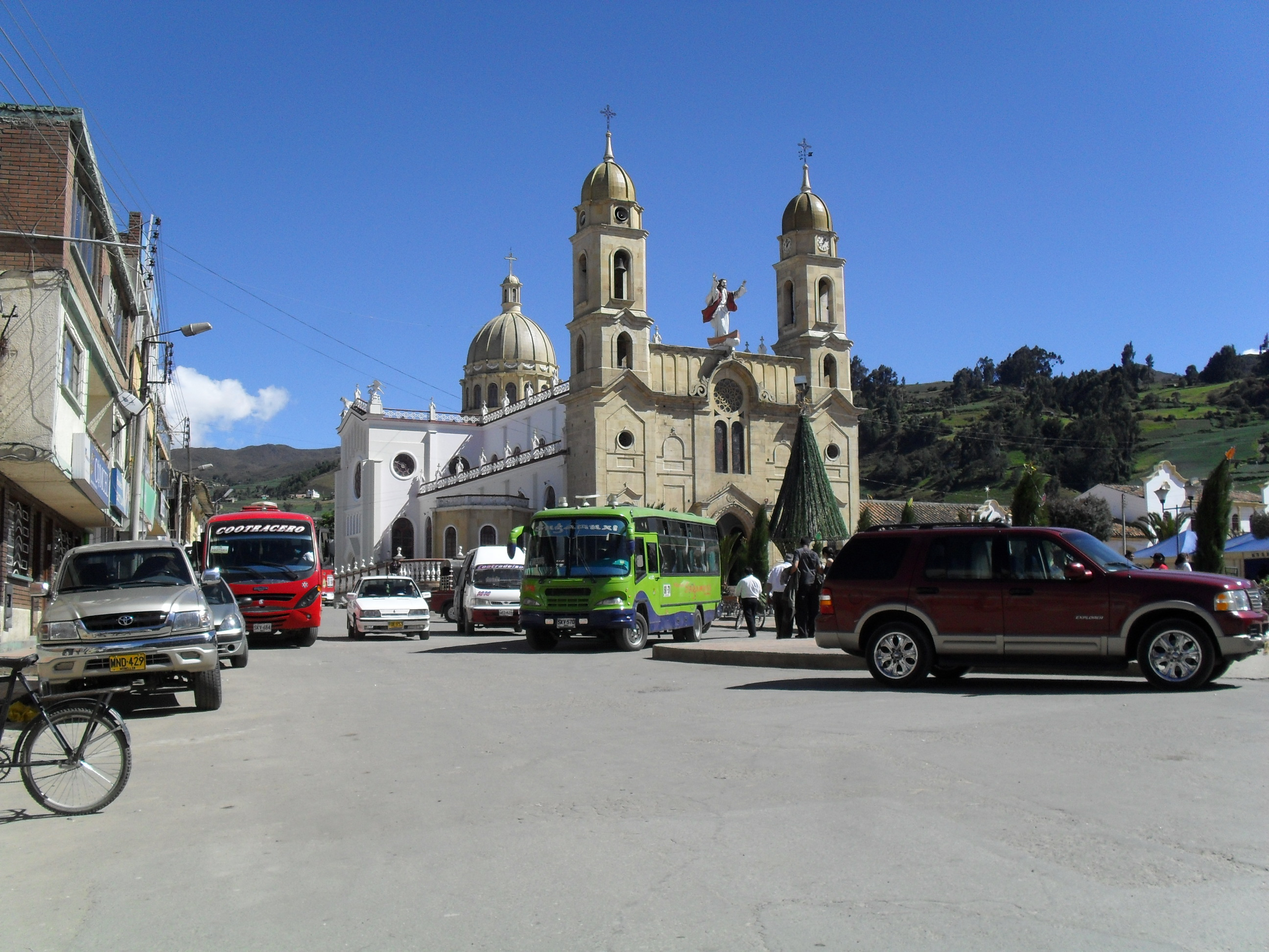 Central Park in the Municipality of Aquitania, Boyacá, Colombia